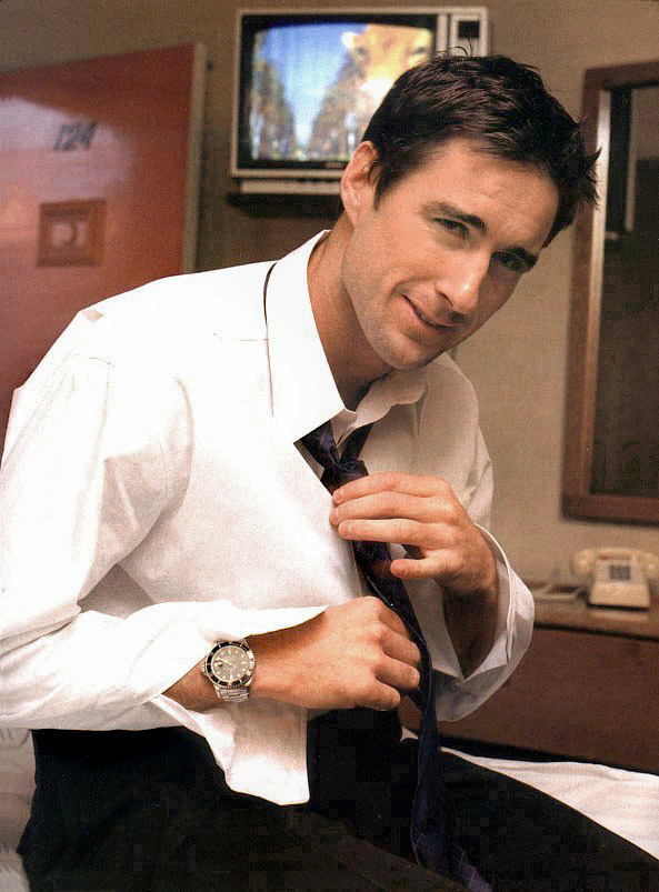 Luke Wilson photographed by Jerry Avenaim